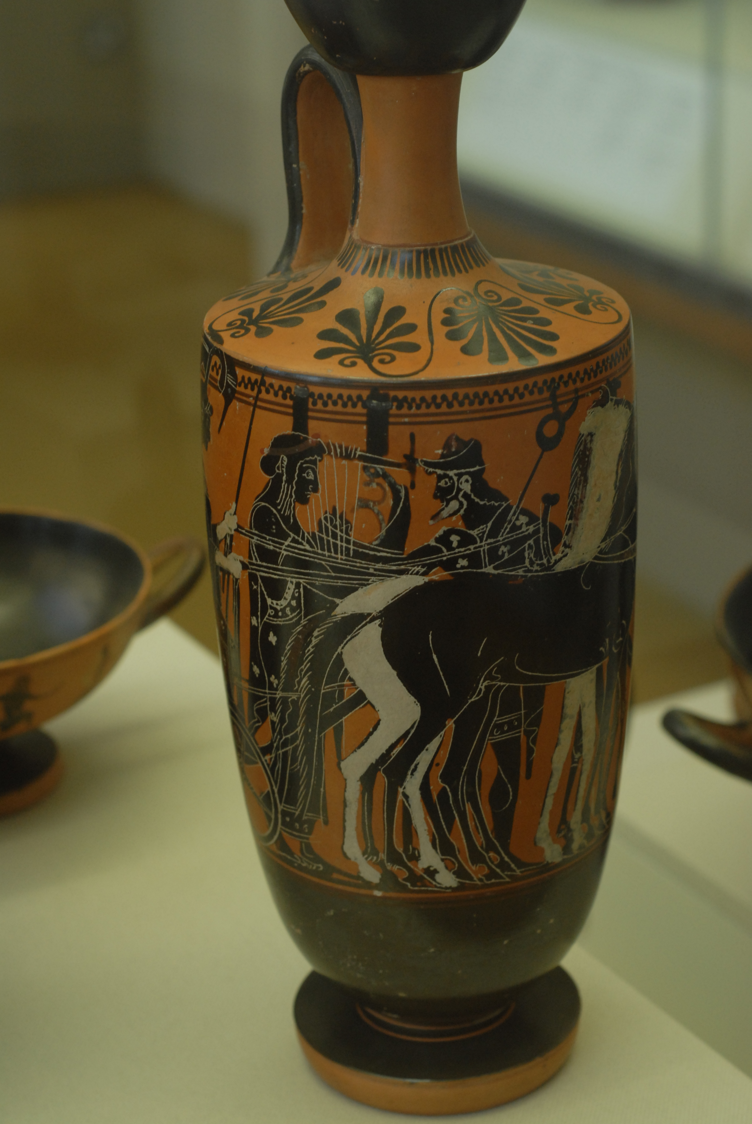 Athenian Black-Figure lekythos by the Edinburgh Painter (his name vase), ca. 525-475, National Museum of Scotland, Edinburgh, 1872.23.12. Depicting Athena's Mourning Chariot, Apollo with Kithara, Hermes, Athena (?), with wreath and spear. See Haspels, C., Attic Black-figured Lekythoi (Paris, 1936): 216.7.